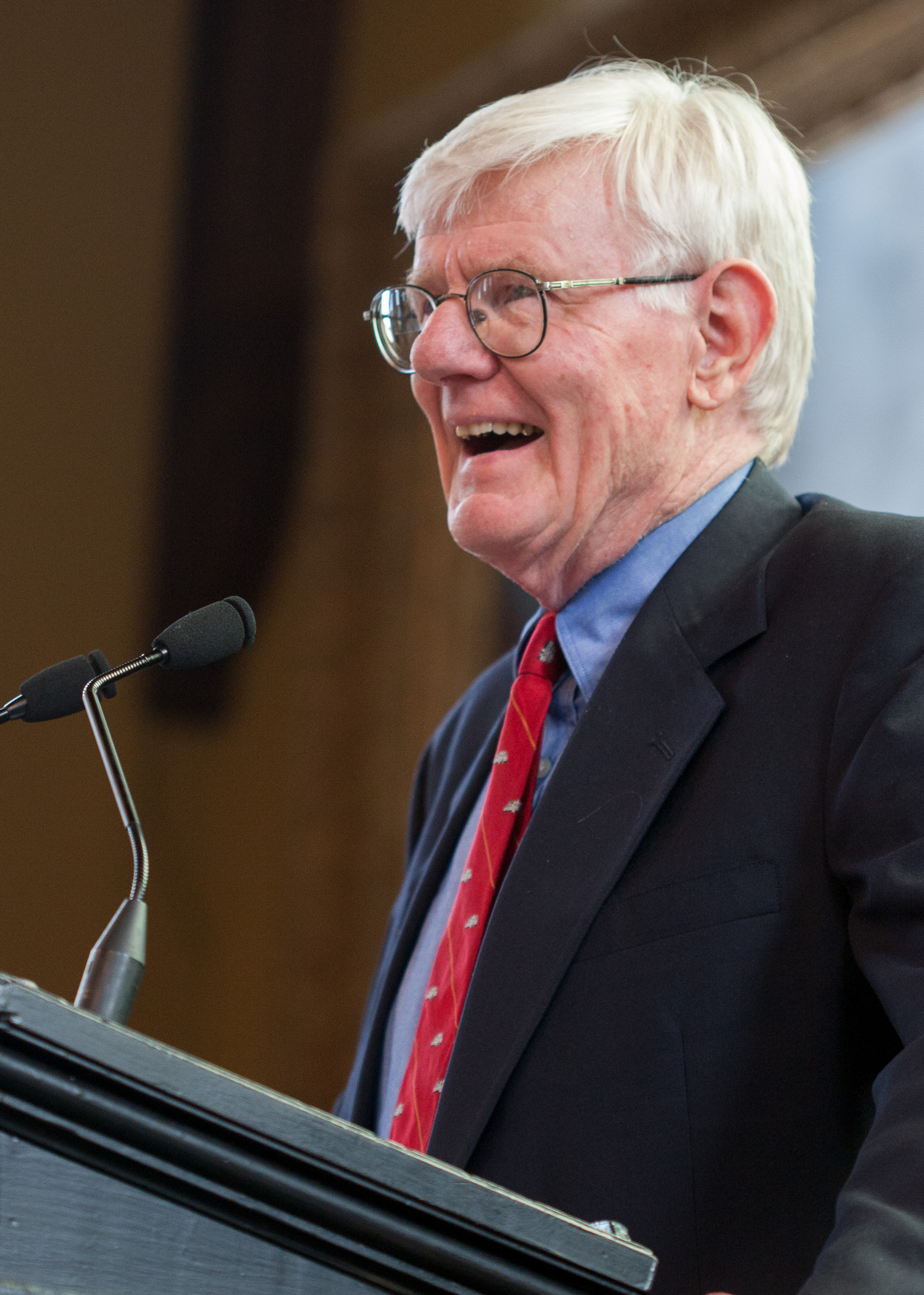 Gordon Wood, Brown University professor of History.